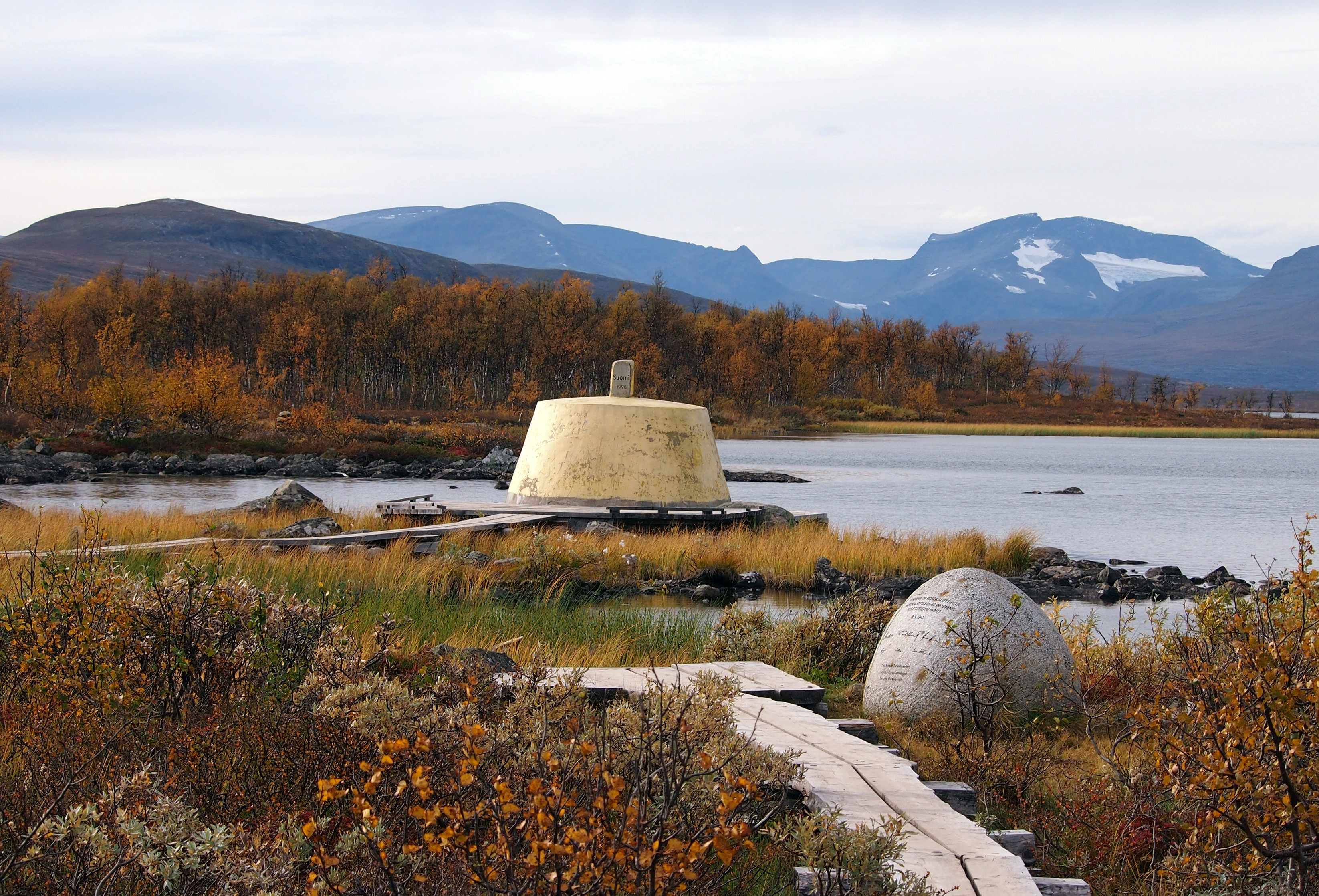 View from the boardwalk to the "Three-Country Cairn".